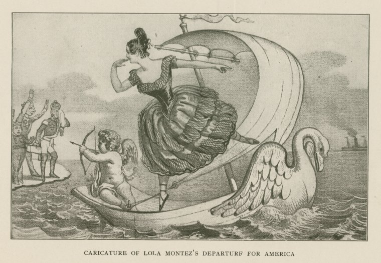 Caricature of Irish performer, writer and reknowned beauty Lola Montez